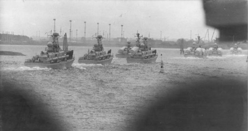 Ships of the GDRs navy parade in Rostock harbor during the celebrations in honor of the 25th birthday of the GDR in 1974. 4 soviet made Project 206 (NATO reporting name: "Shershen-class") torpedoboats can be seen in the foreground and 4 soviet made Project 205 (NATO reporting name: "OSA-class") missileboats in the back